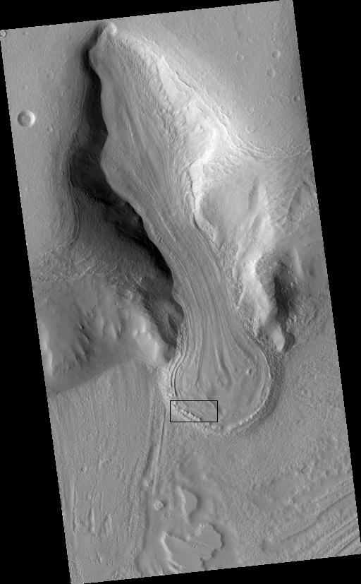 Wide view of glacier as seen by hirise under HiWish program. Contains image field of close up image. Location is 42.2 N and 50.5 E. Image is around 12 km long.